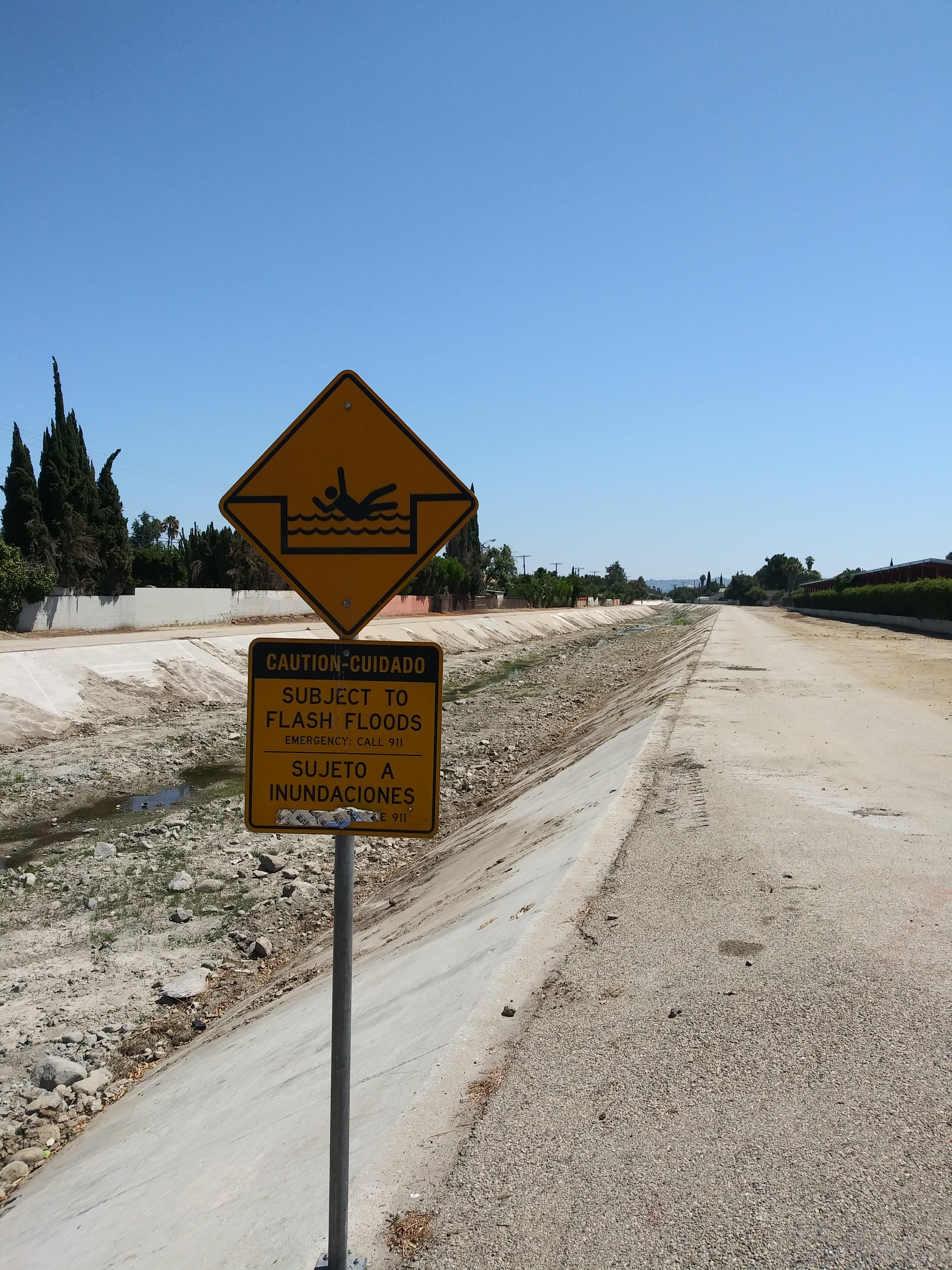 Pacoima Wash in Ponorama City, Los Angeles